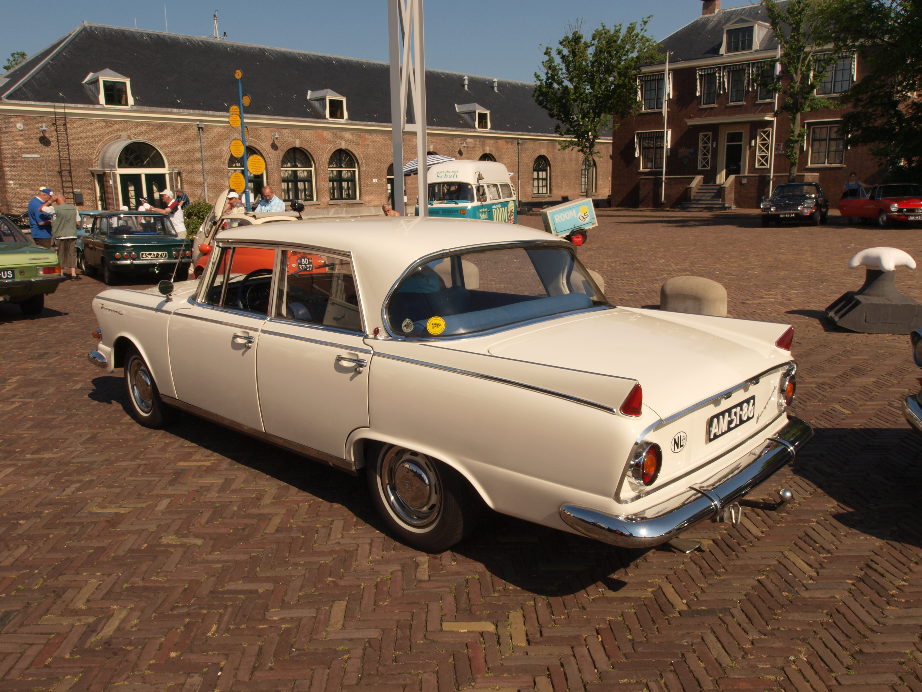 Photographed at Den Helder, The Netherlands. OLYMPUS DIGITAL CAMERA